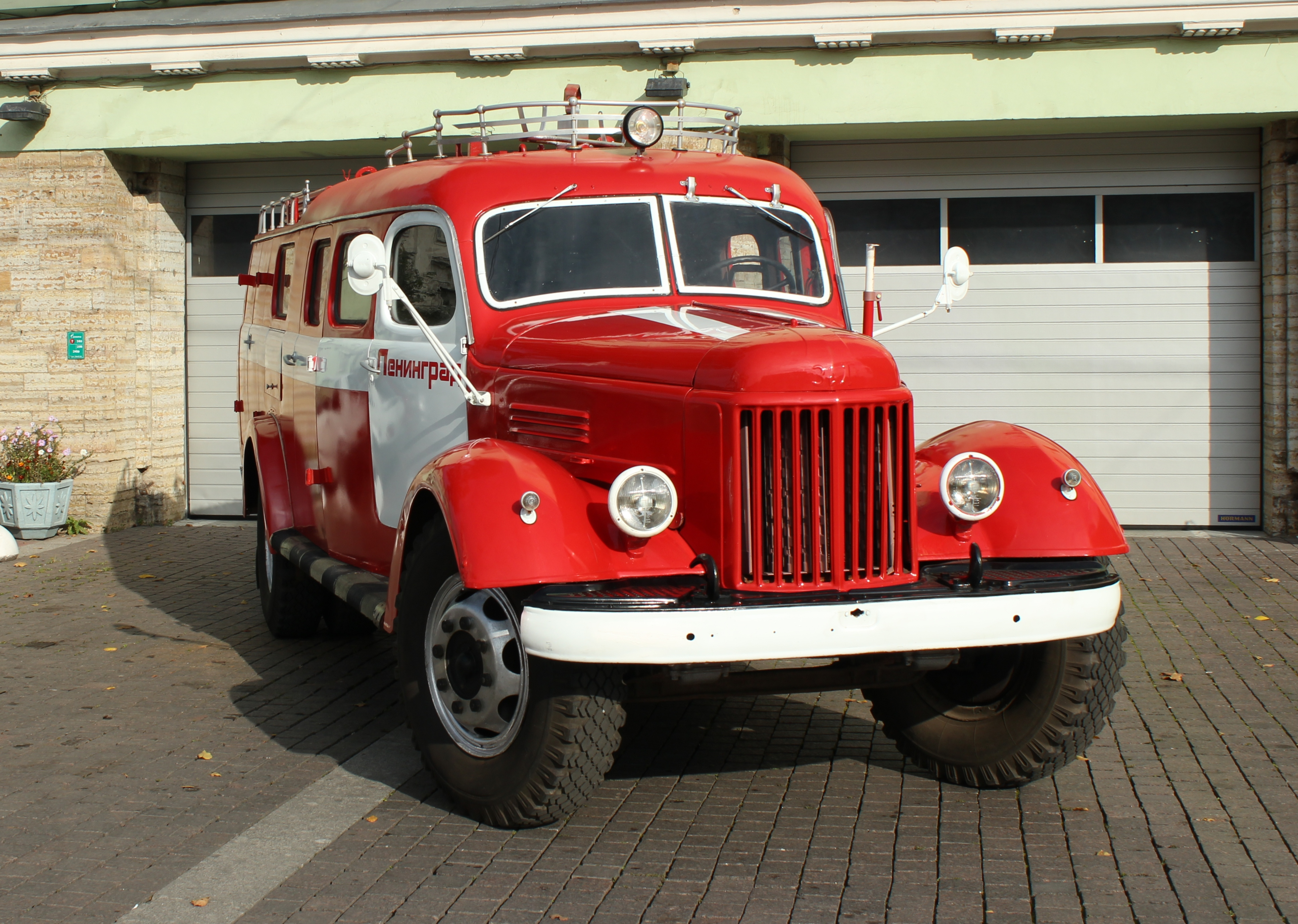 a ZiL-164 fire engine in St. Petersburg region